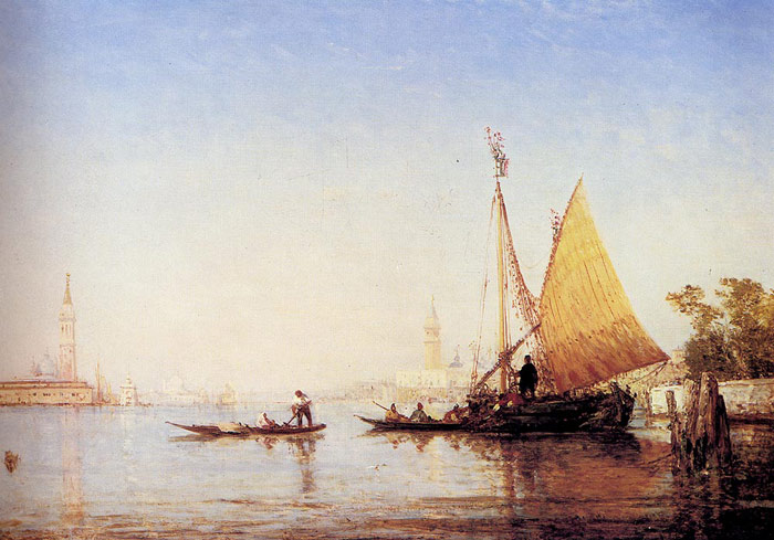 The Grand Canal, Venice